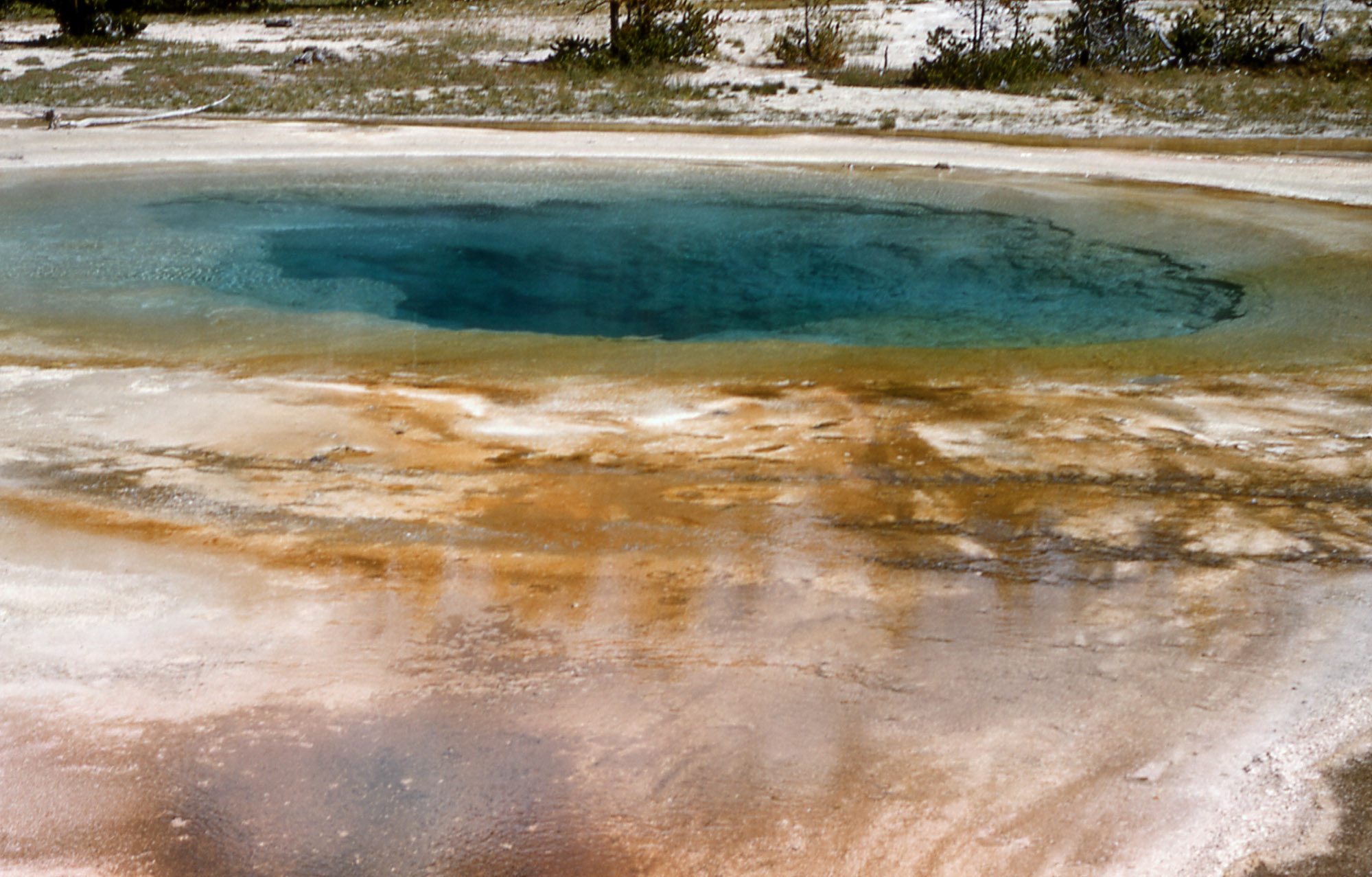 Beasuty Pool, a hot spring in Yellowstone National Park